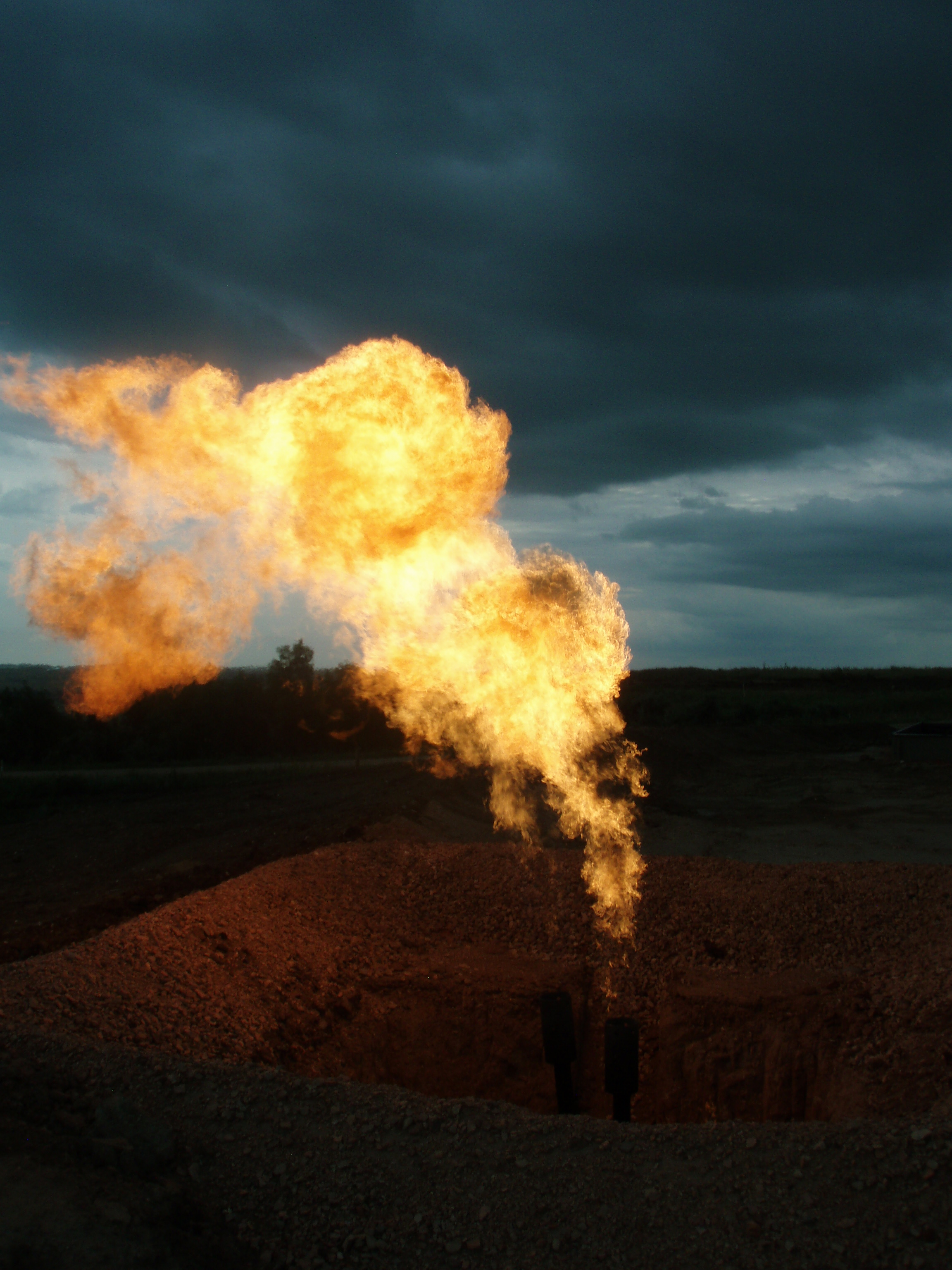 Bakken Flaring Gas at night